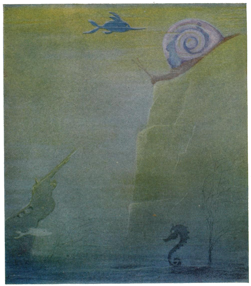 png of image on page 162 of File:The Voyage of Doctor Dolittle.djvu